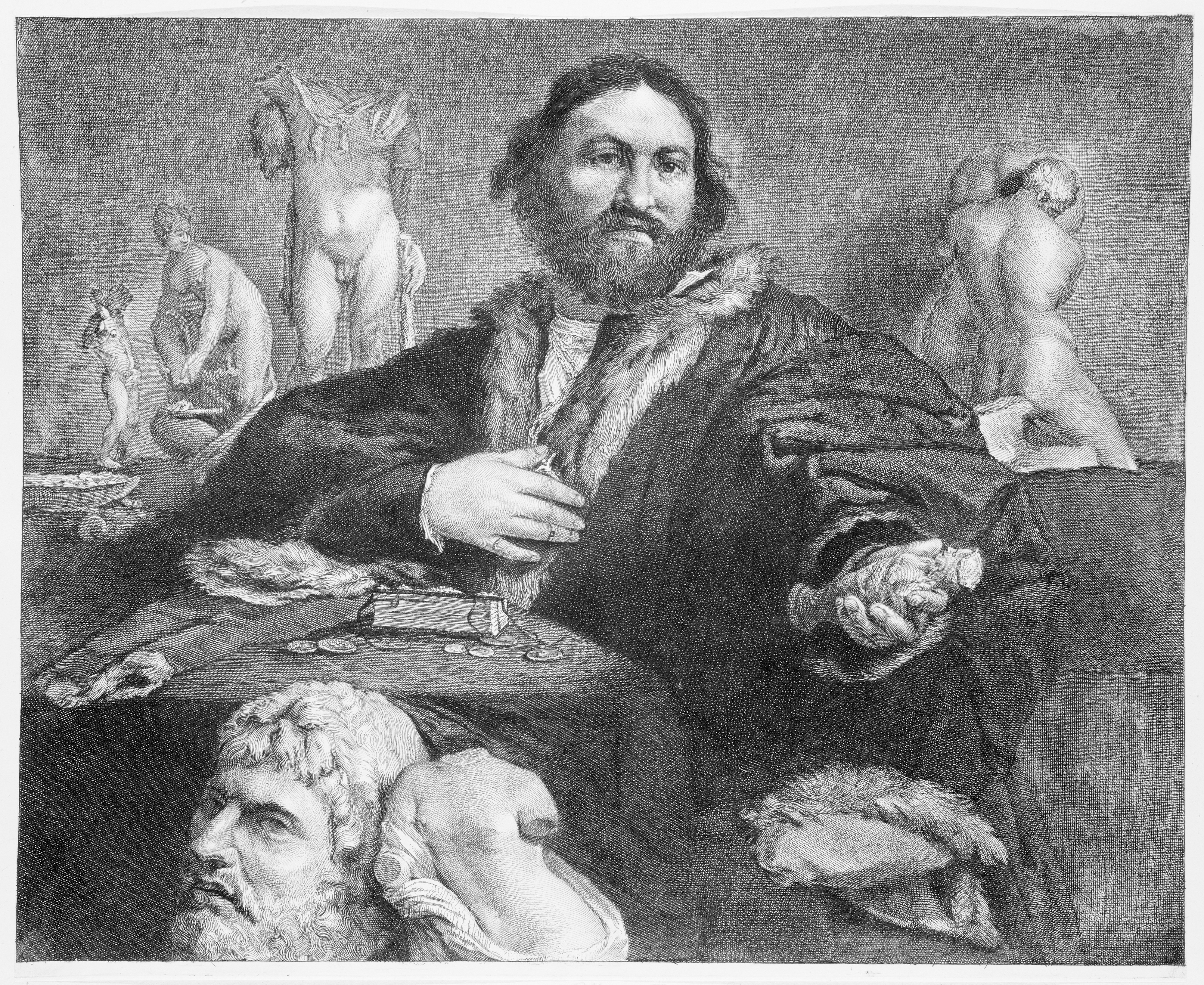 Print; Prints